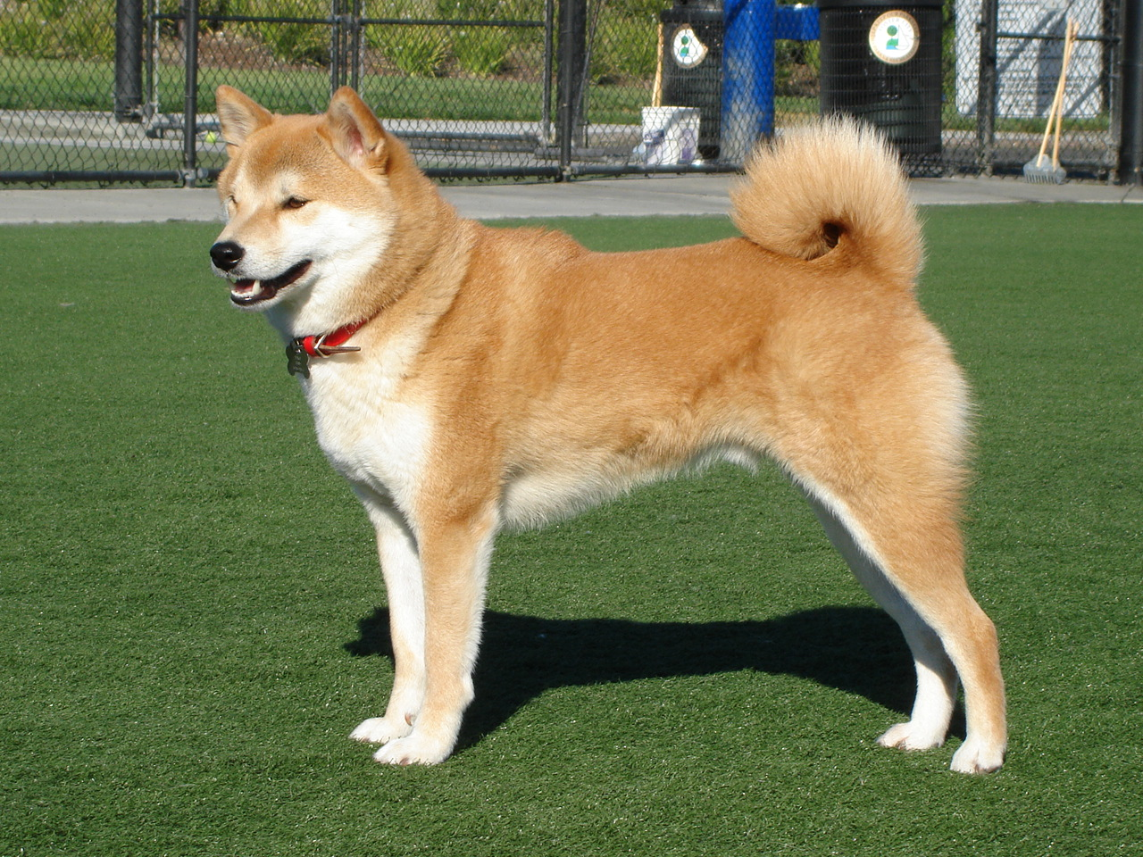 BEST DOG EVER ps HI TIN TIN